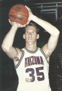 Basketball player Jud Buechler with the Arizona Wildcats.